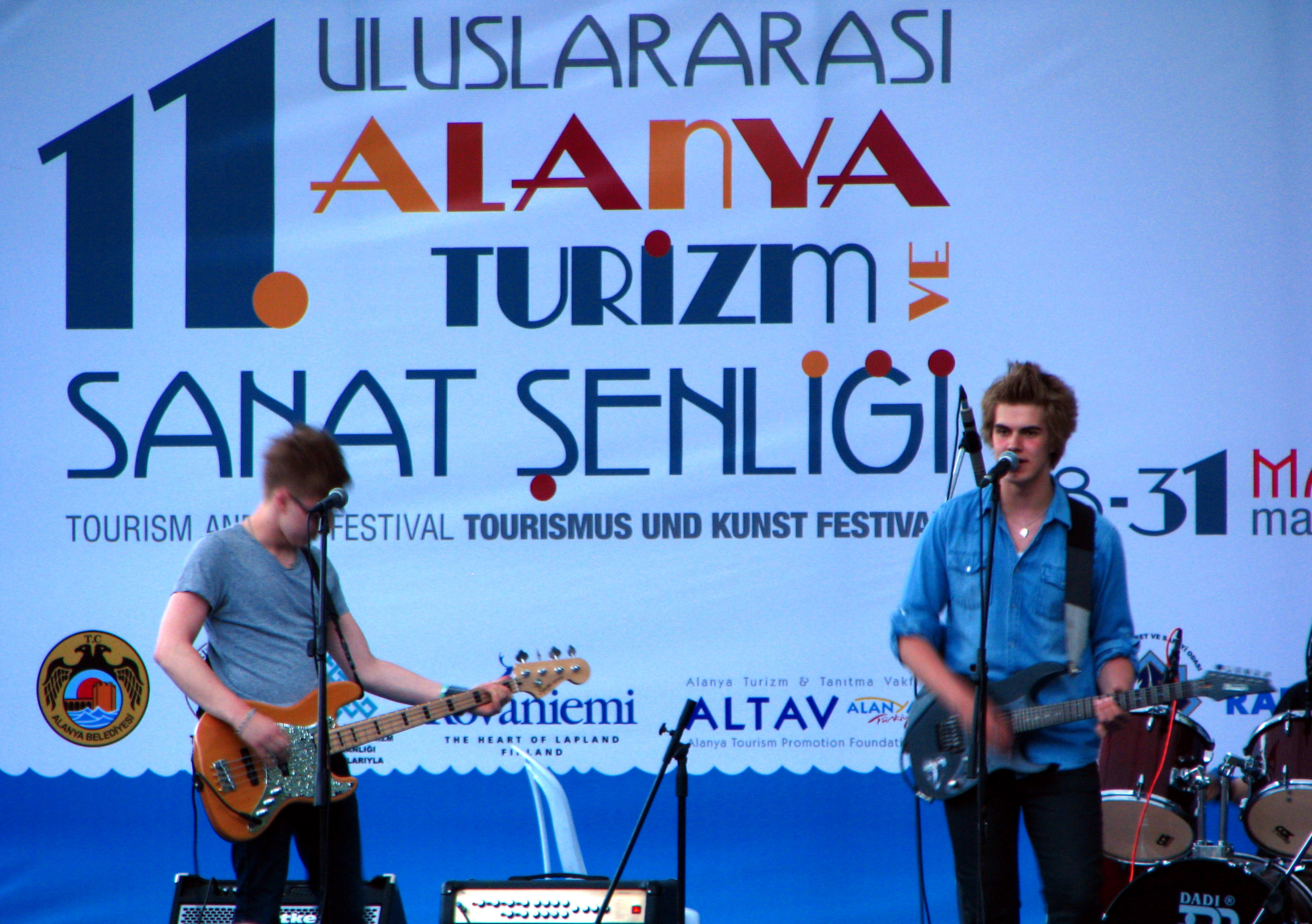 11.th Alanya International Culture and Art Festival 2011